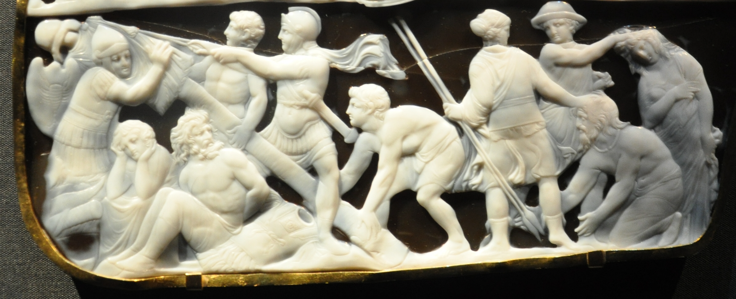 A depiction of Emperor Augustus surrounded by goddesses and allegories. Roman. Two-Layered onyx. Setting: gold frame, reverse side in ornamented open-work; German, 17th century.